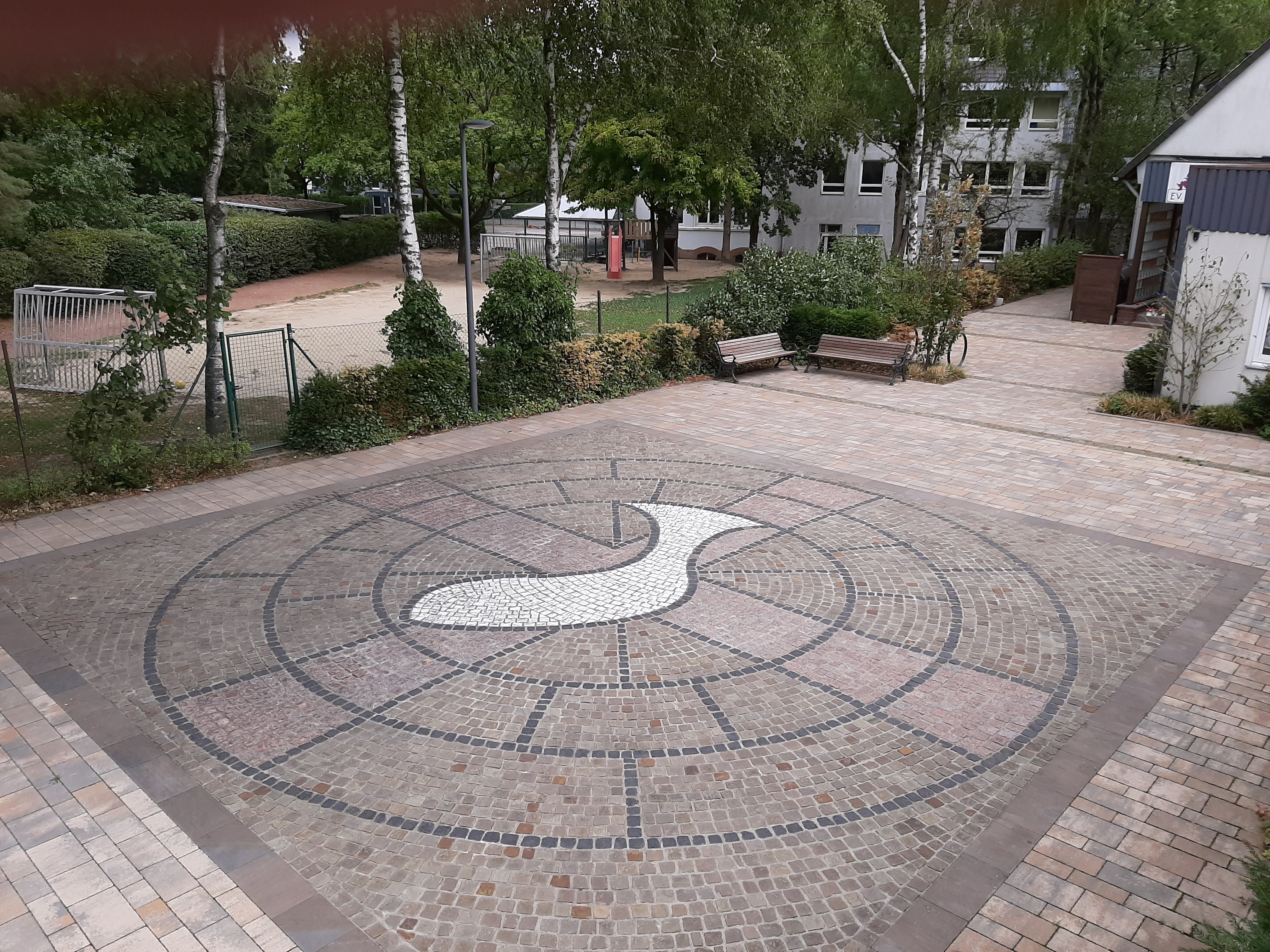 new designed church square of chapelle on Lichtenplatz, Wuppertal